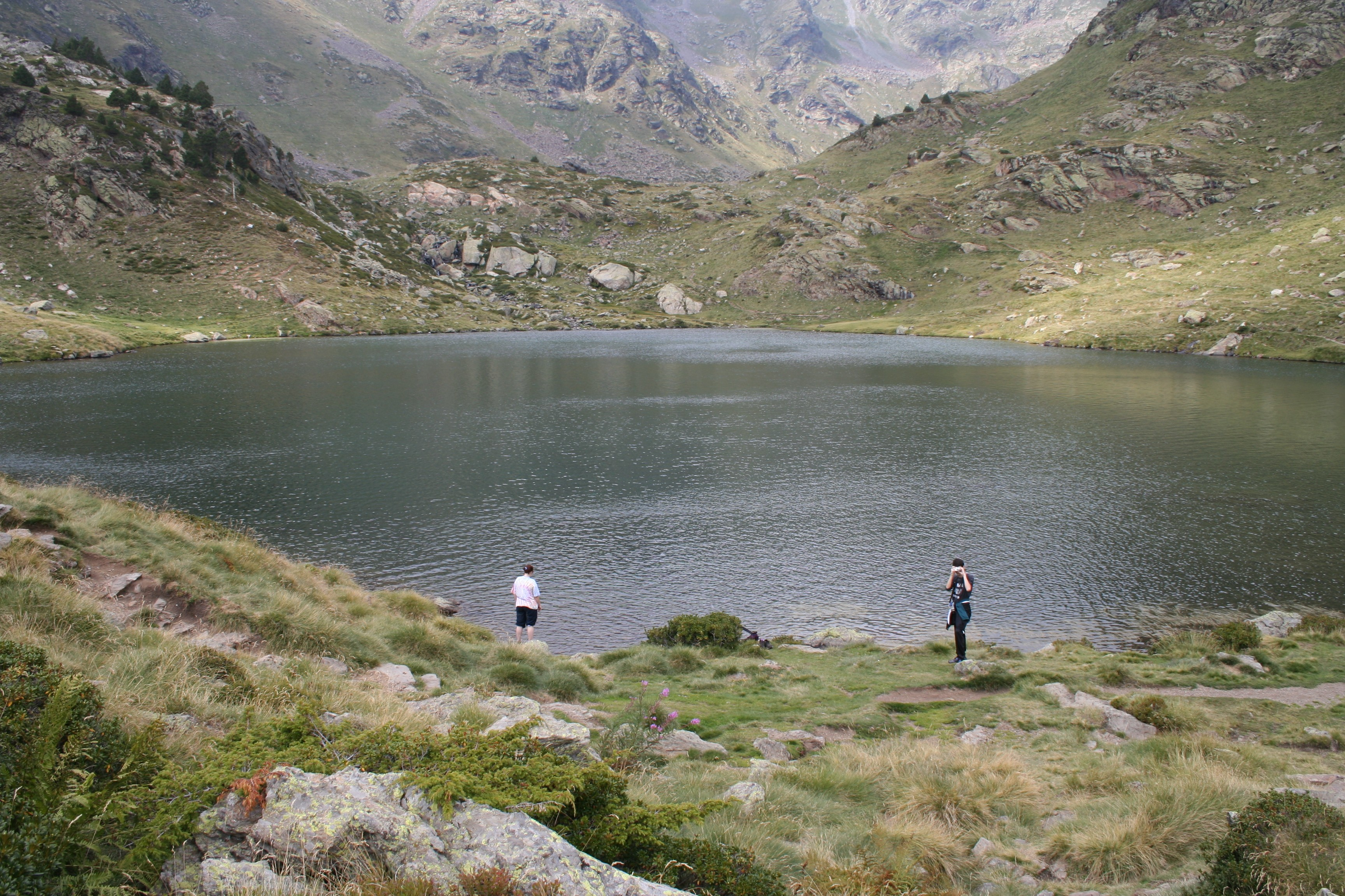 The lake of Tristaina de Baix, near the Ordino-Arcalís ski-resort